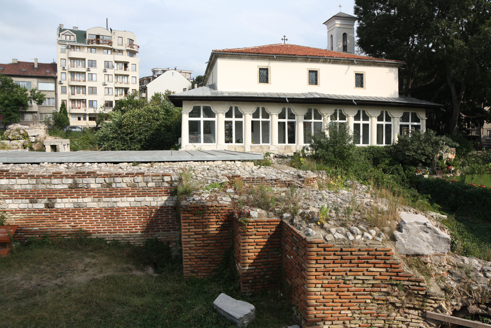 St.Athanasius Church in Varna with the Roman Thermae in foreground